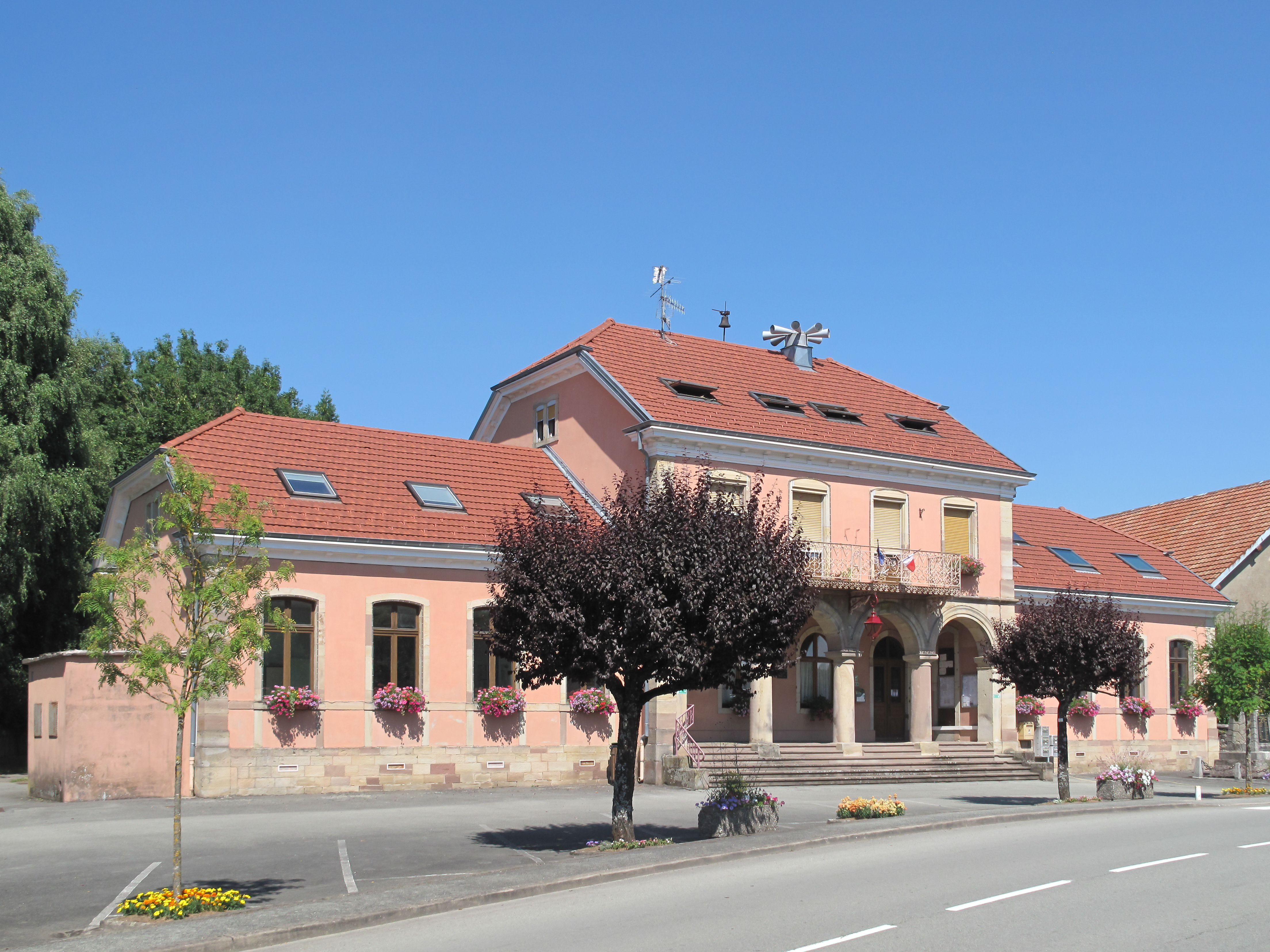 Foussemagne, townhall